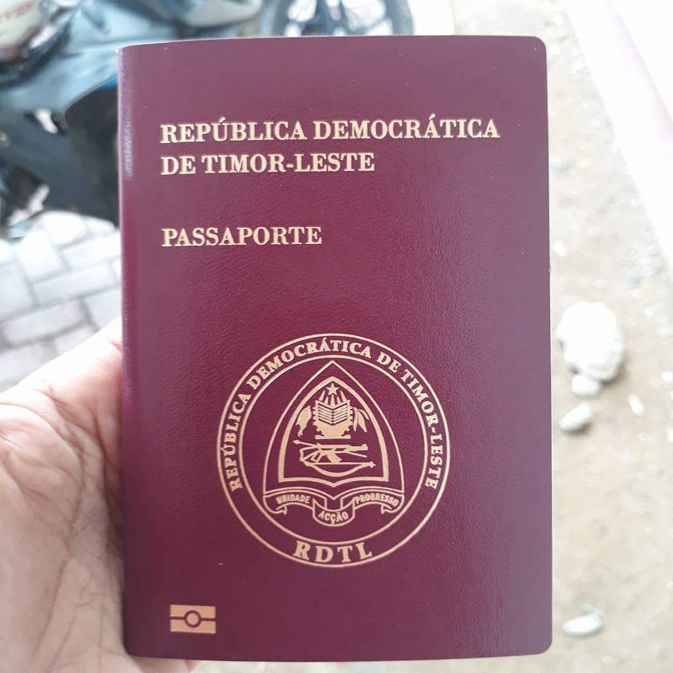 Photo of new pasport